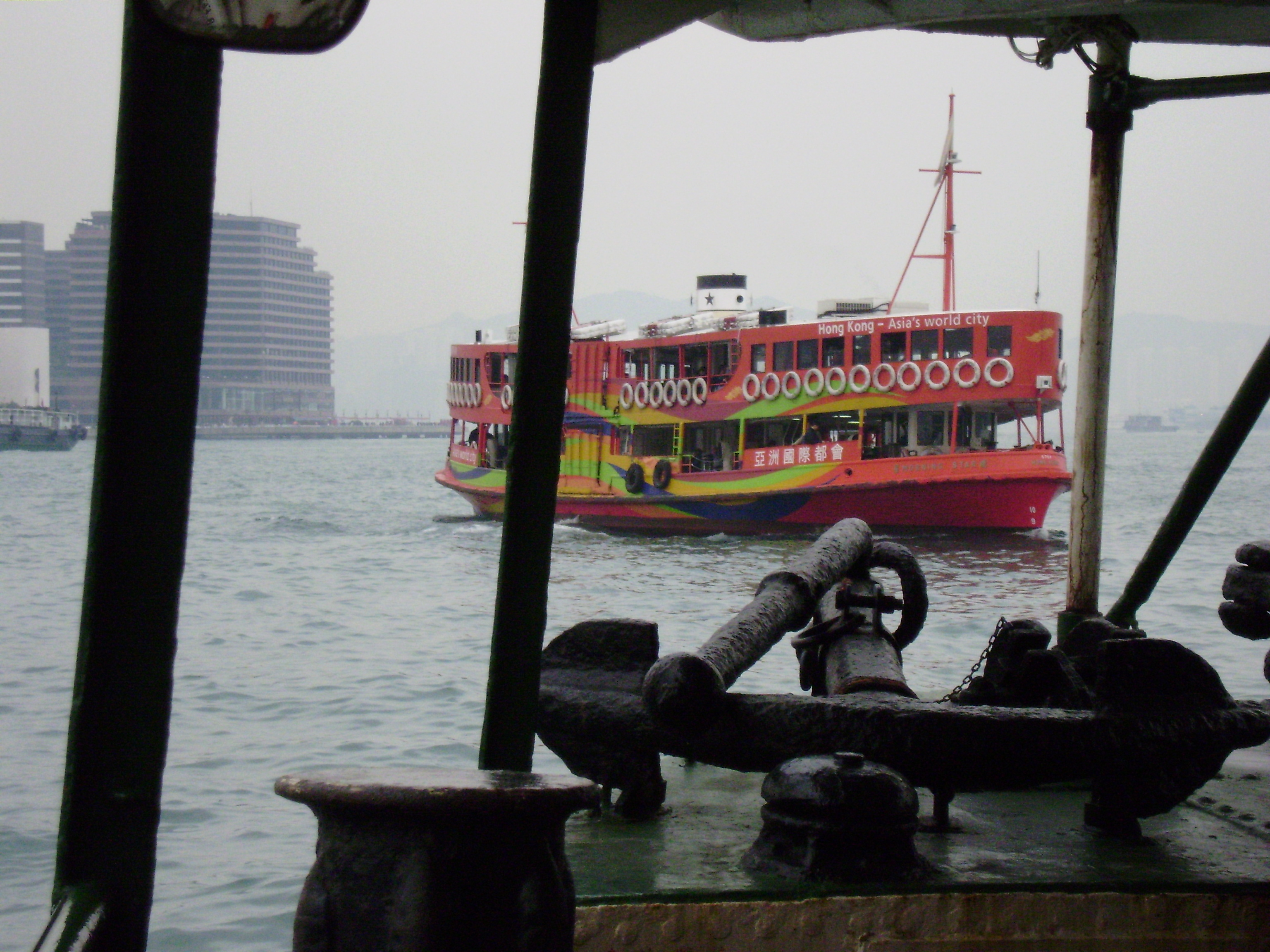 A bright red Star Ferry: Morning Star